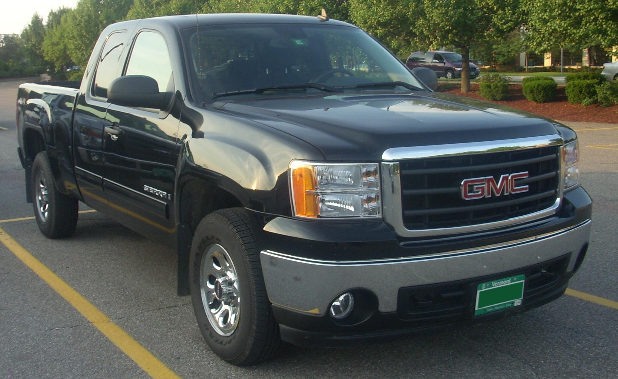 2007-present GMC Sierra photographed in South Burlington, Vermont, USA.